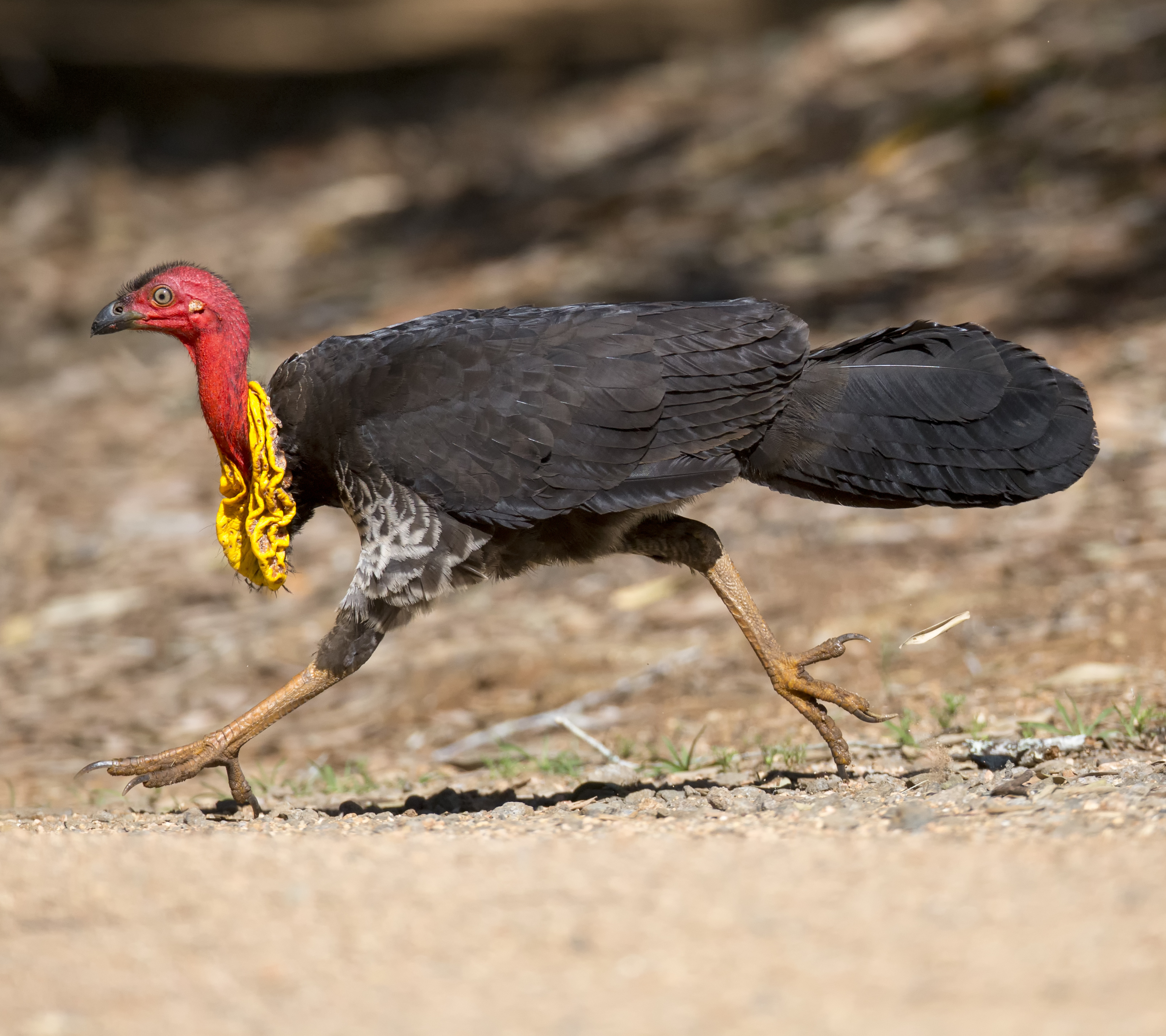 on the run